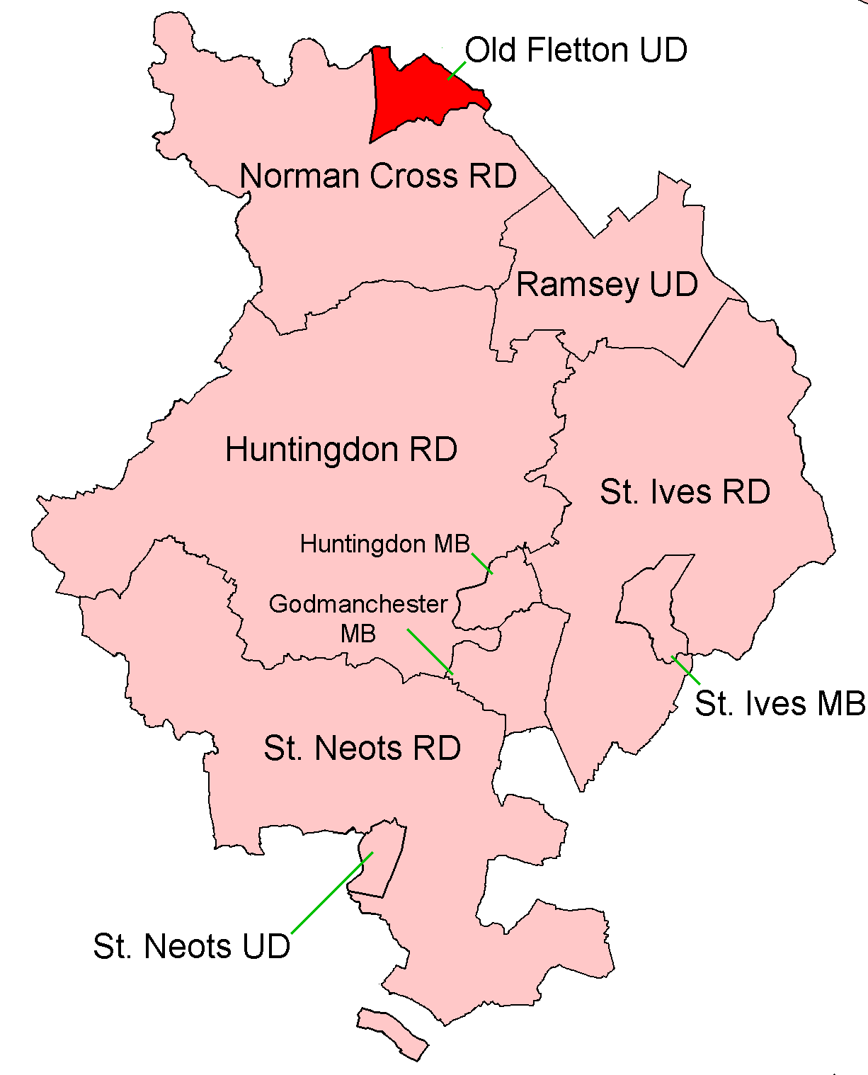 Old Fletton Urban District, shown within the administrative county of Huntingdonshire. All boundaries shown are correct for the period between 1935 and 1965 (except that Huntingdon & Godmanchester MBs merged in 1961). Old Fletton UD itself remained unchanged until abolition in 1974.